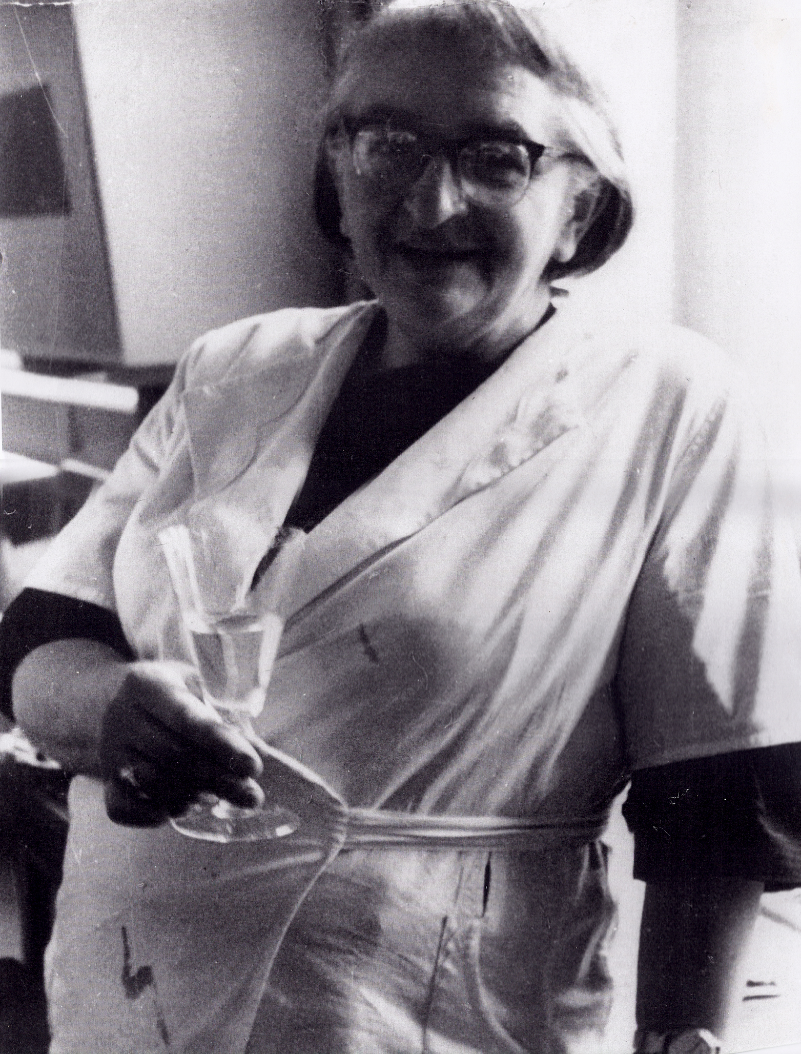 German painter Else Möckel